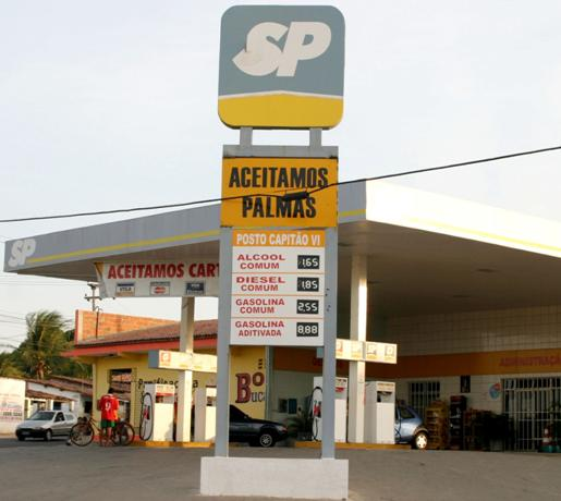 An example of a local business accepting palmas: "Aceitamos Palmas (We accept Palmas)."